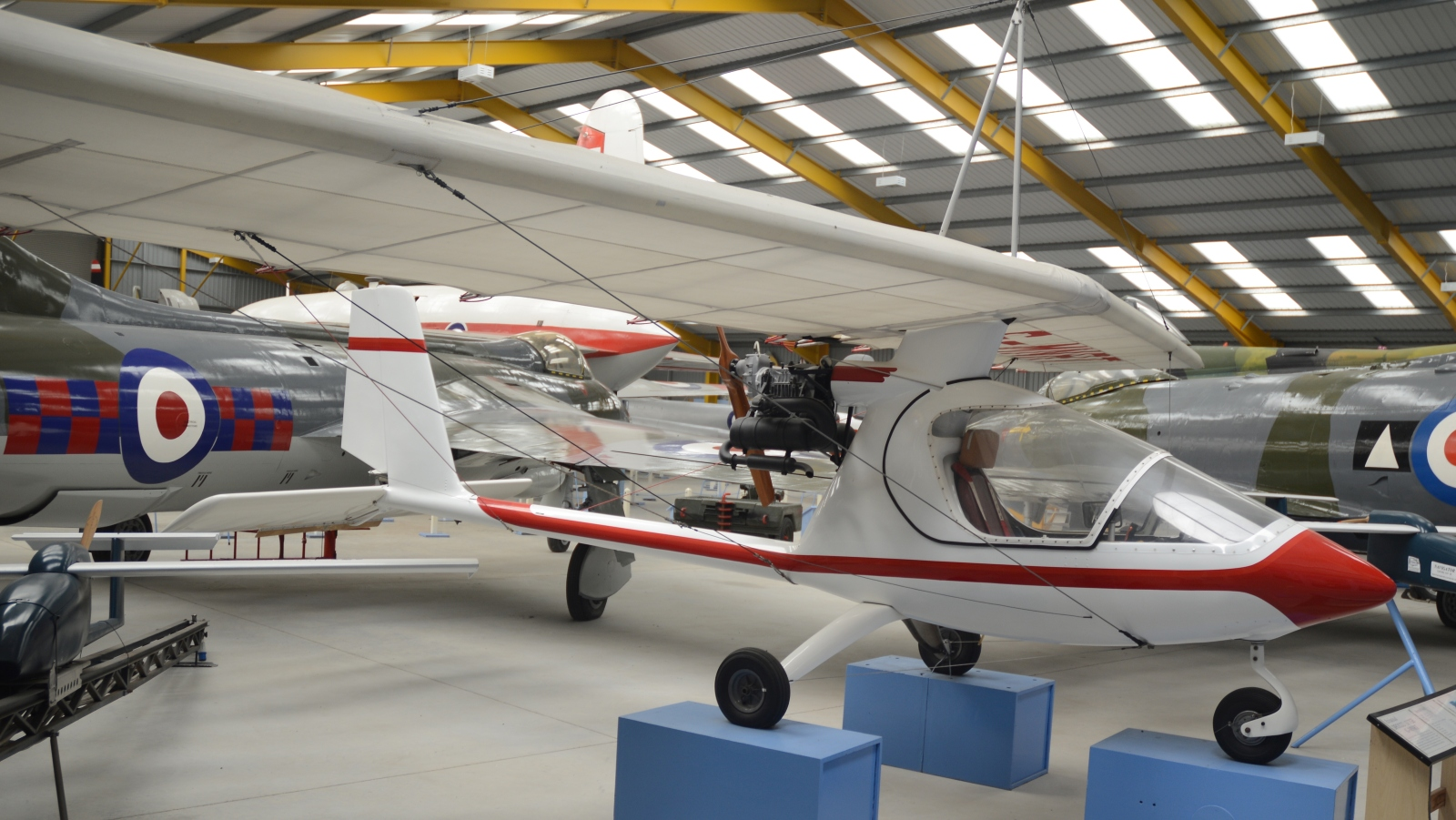 At Newark Air Museum, UK